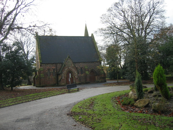 Chapel in Jarrow Cemetery